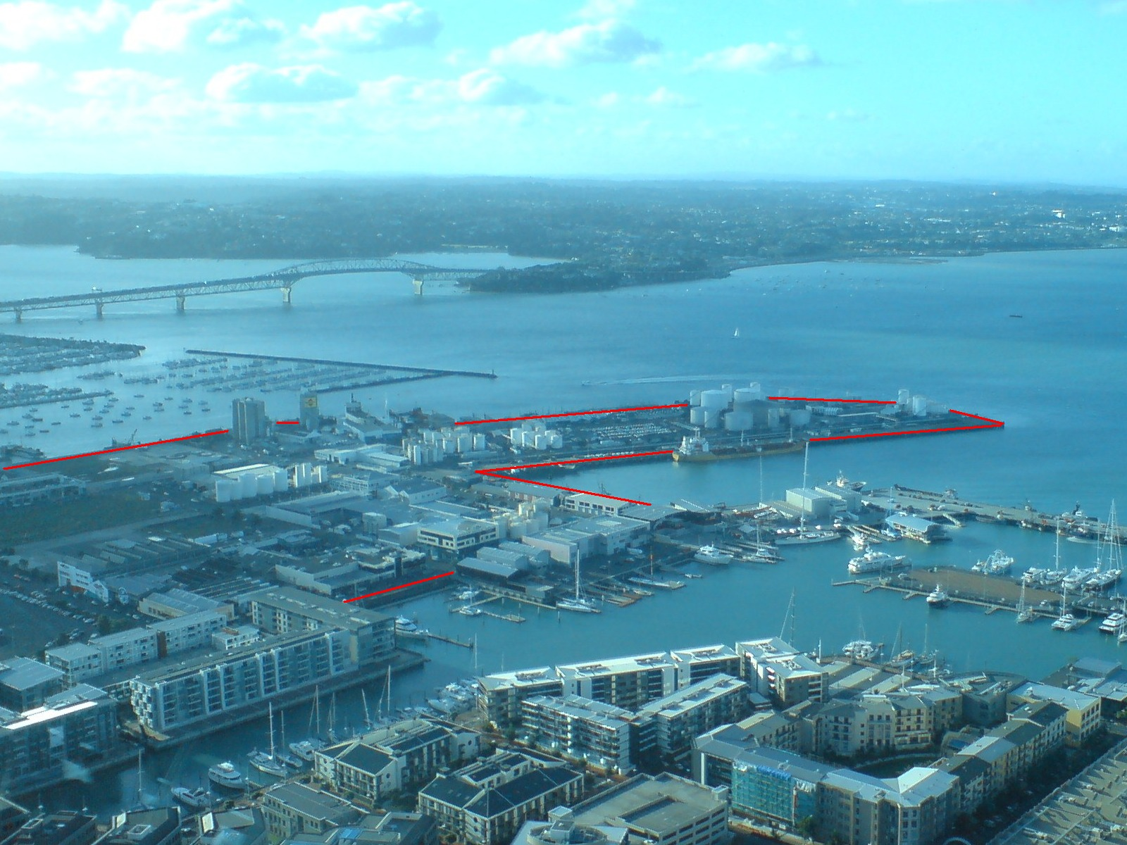 The Western Reclamation (also known as Wynyard Wharf) in Auckland City, New Zealand. The red lines show the approximate suburb boundaries.